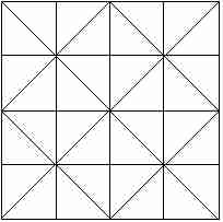 Bagha-chall board.